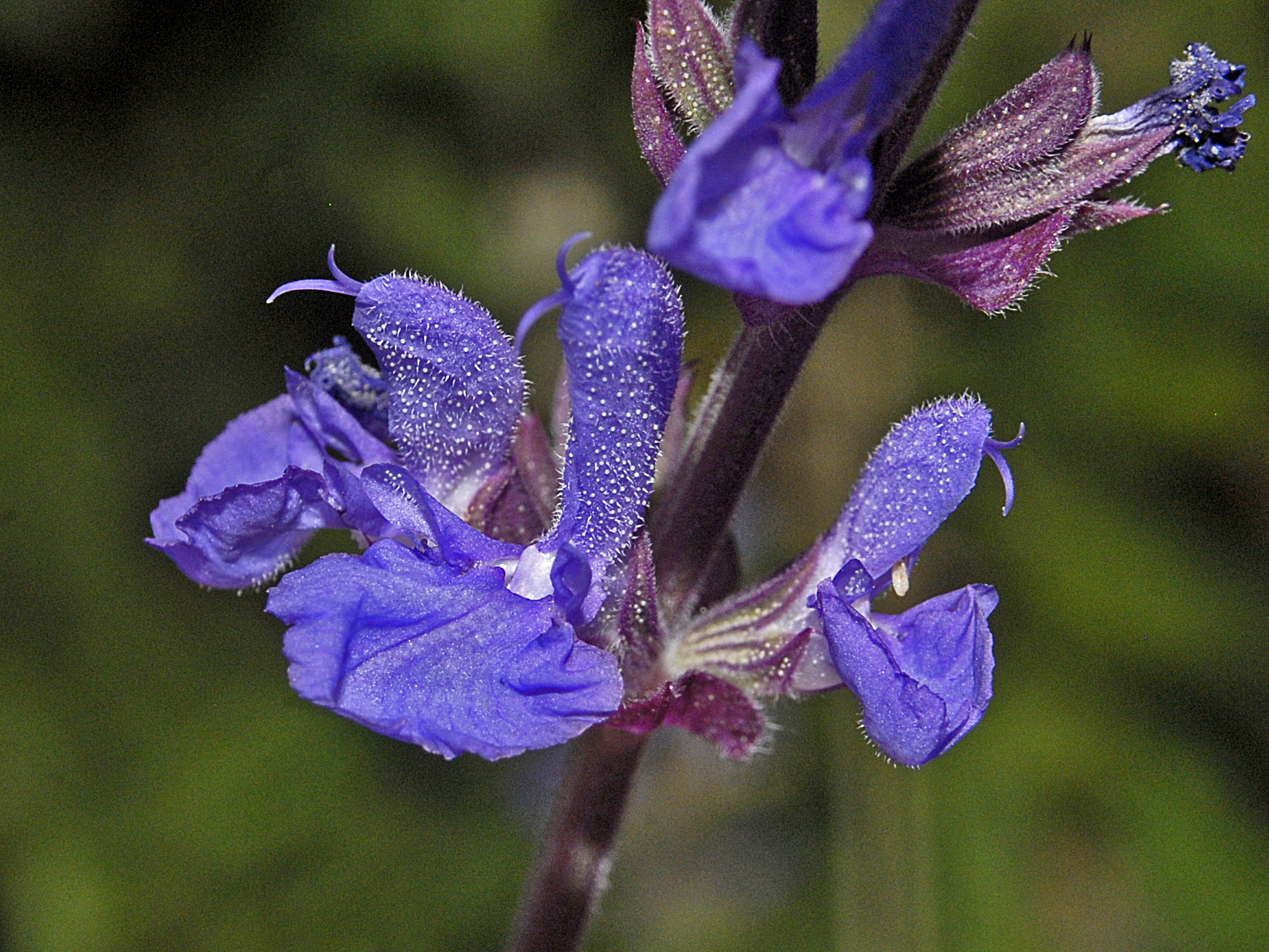 Flowers of Salvia amplexicaulis at the Orto Botanico di Brera